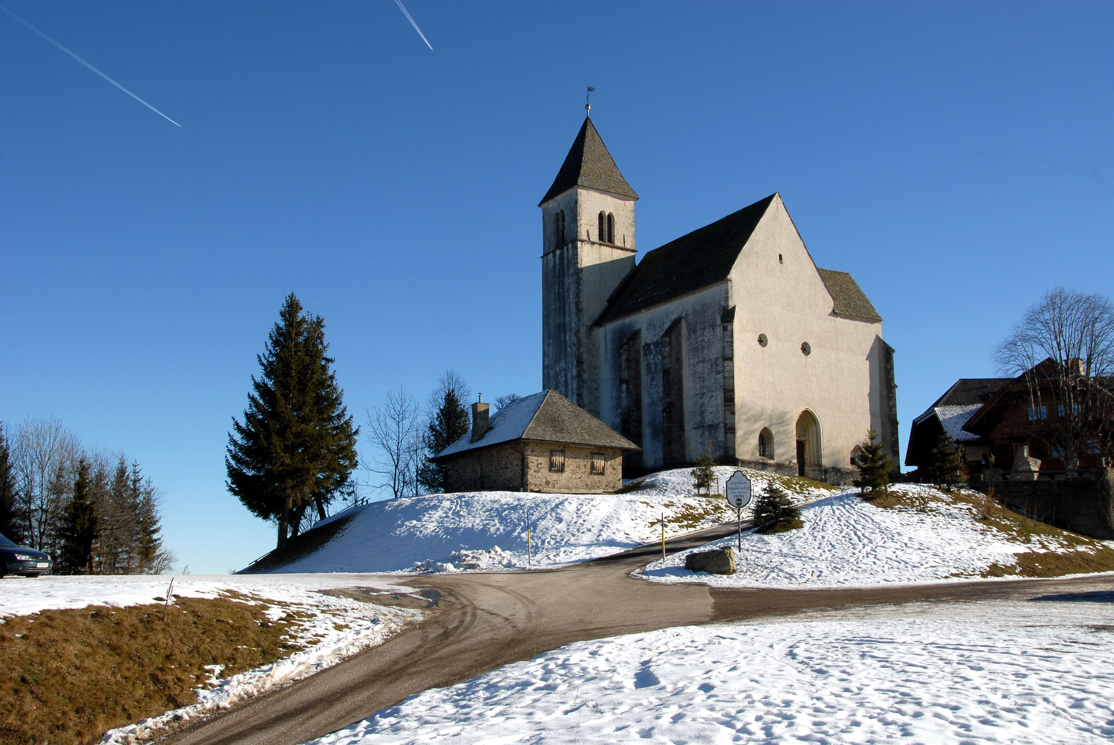 North west view at the subsidiary church Saints Helena and Maria Magdalena on top of Mount Magdalena, municipality Magdalensberg, district Klagenfurt Land, Carinthia / Austria / EU